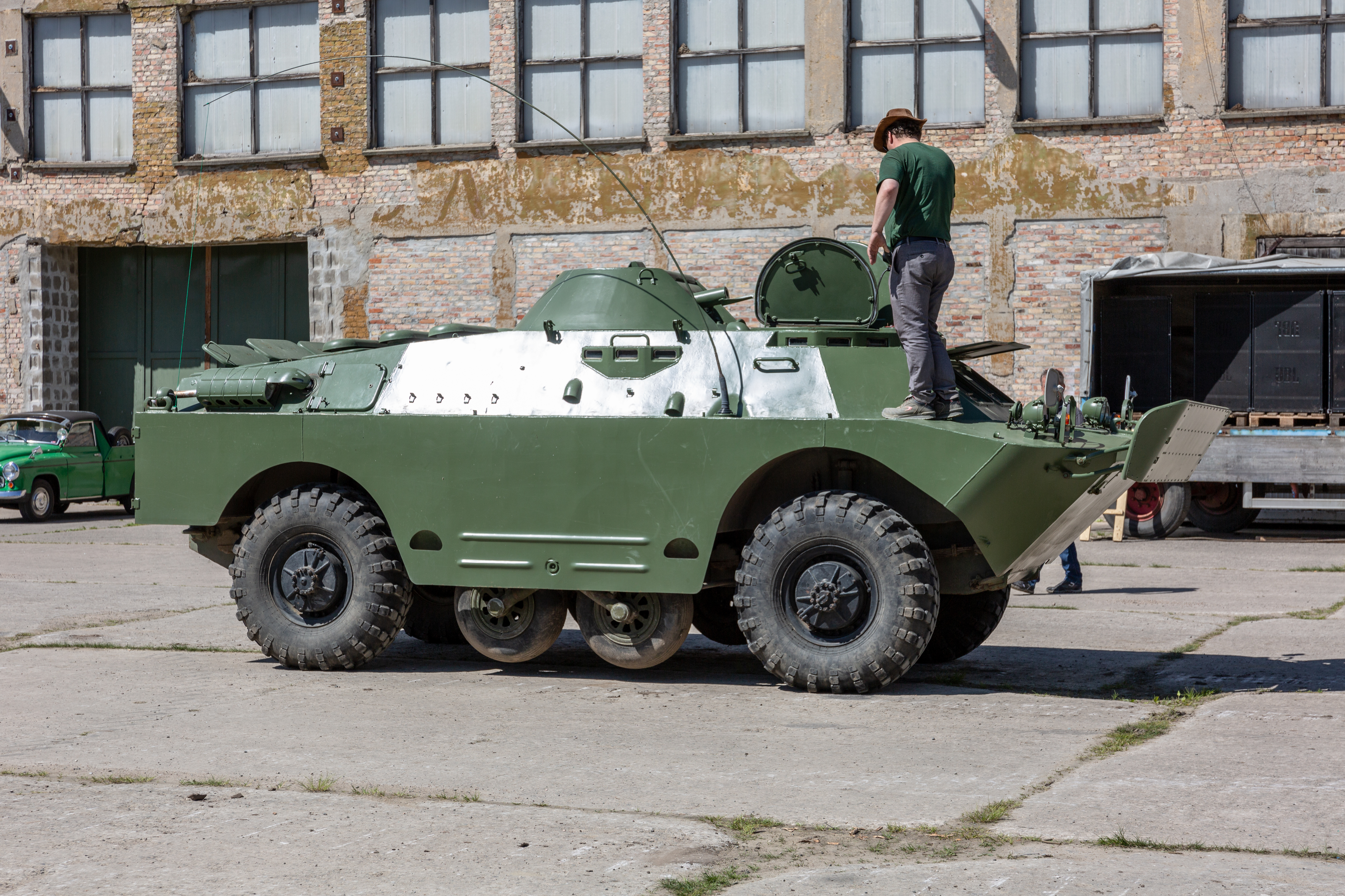 Pfingsttreffen Pütnitz 2018